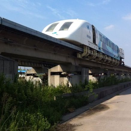 Maglev on Tongji Apr. 2014